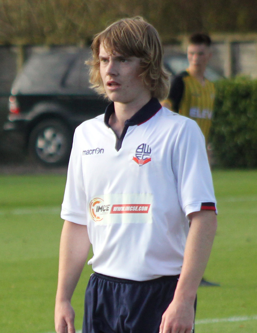 Bolton Wanderers U18s 0-0 Sheffield Wednesday U18s Premier League U18 Professional Development League North Saturday 11 November Eddie Davies Academy